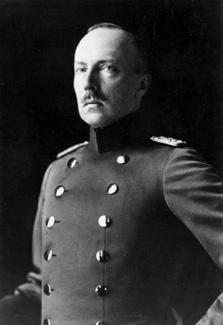 Friedrich Karl Prinz von Hesse-Kassel , Head of the House of Hesse, King of Finland (b.1868-d.1940)